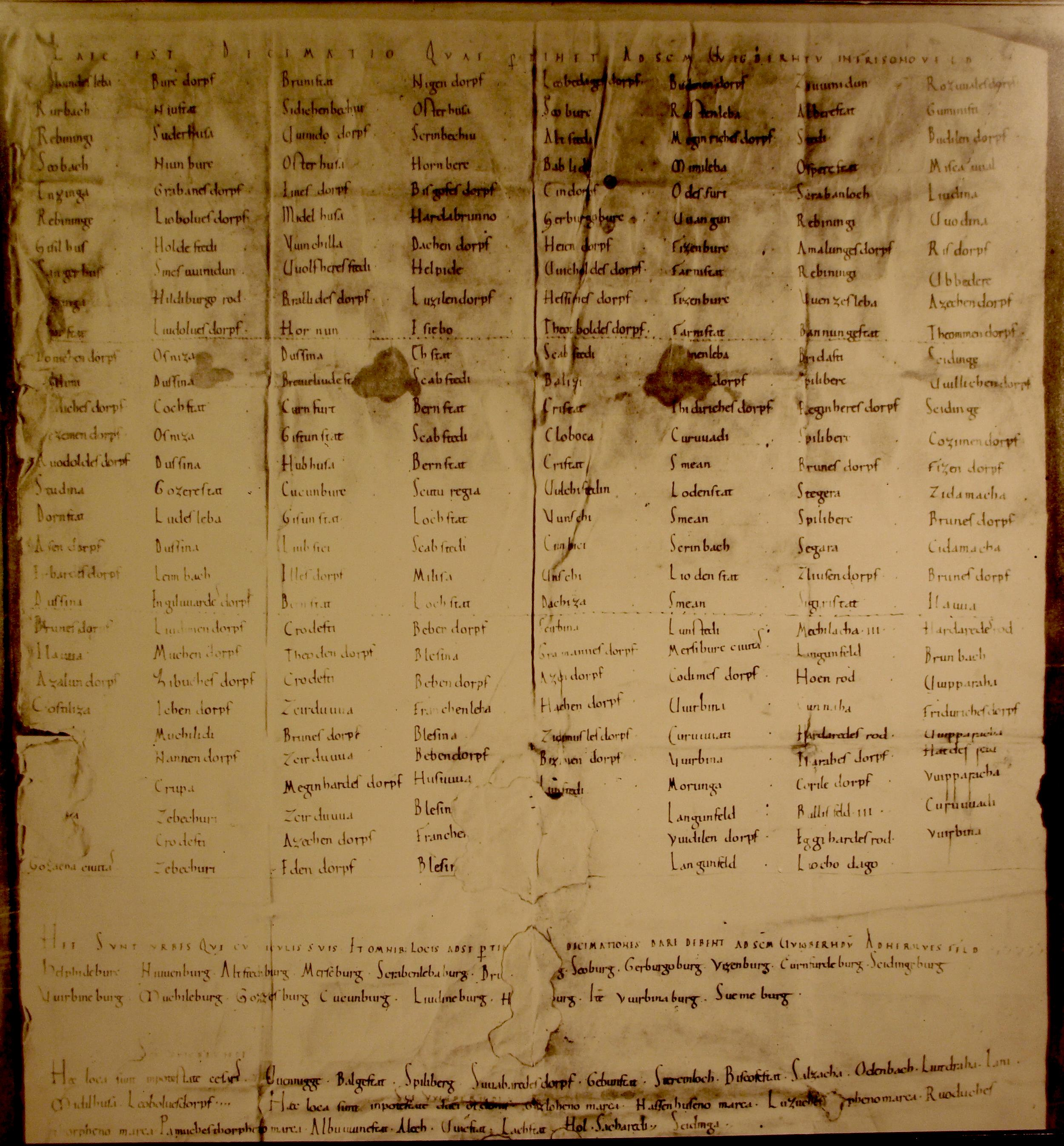 Tithe index of the Imperial abbey Hersfeld, originated between 880 and 899. The pictured deed ist as copy from 11th century